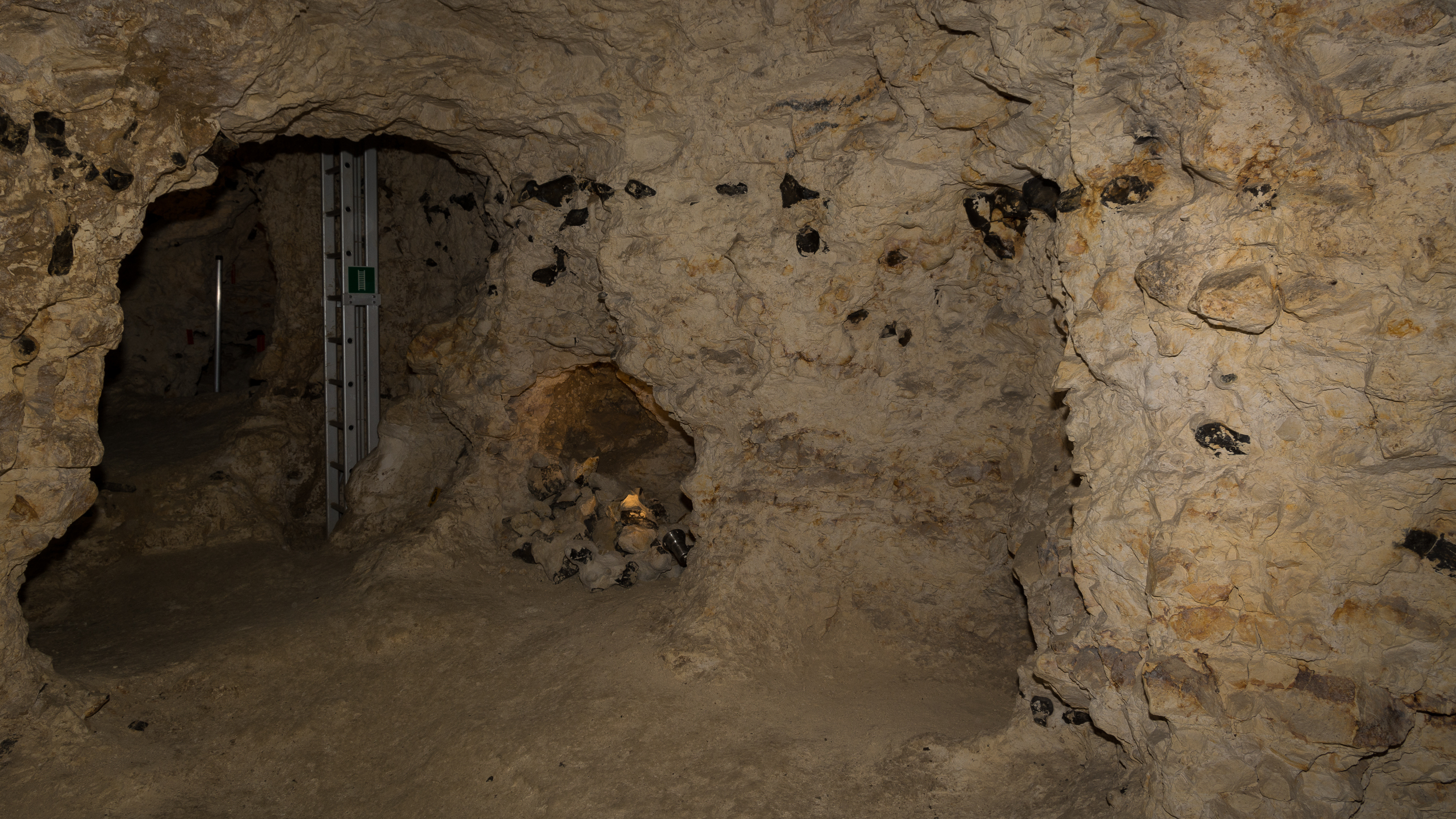 Neolithic Flint Mines at Spiennes